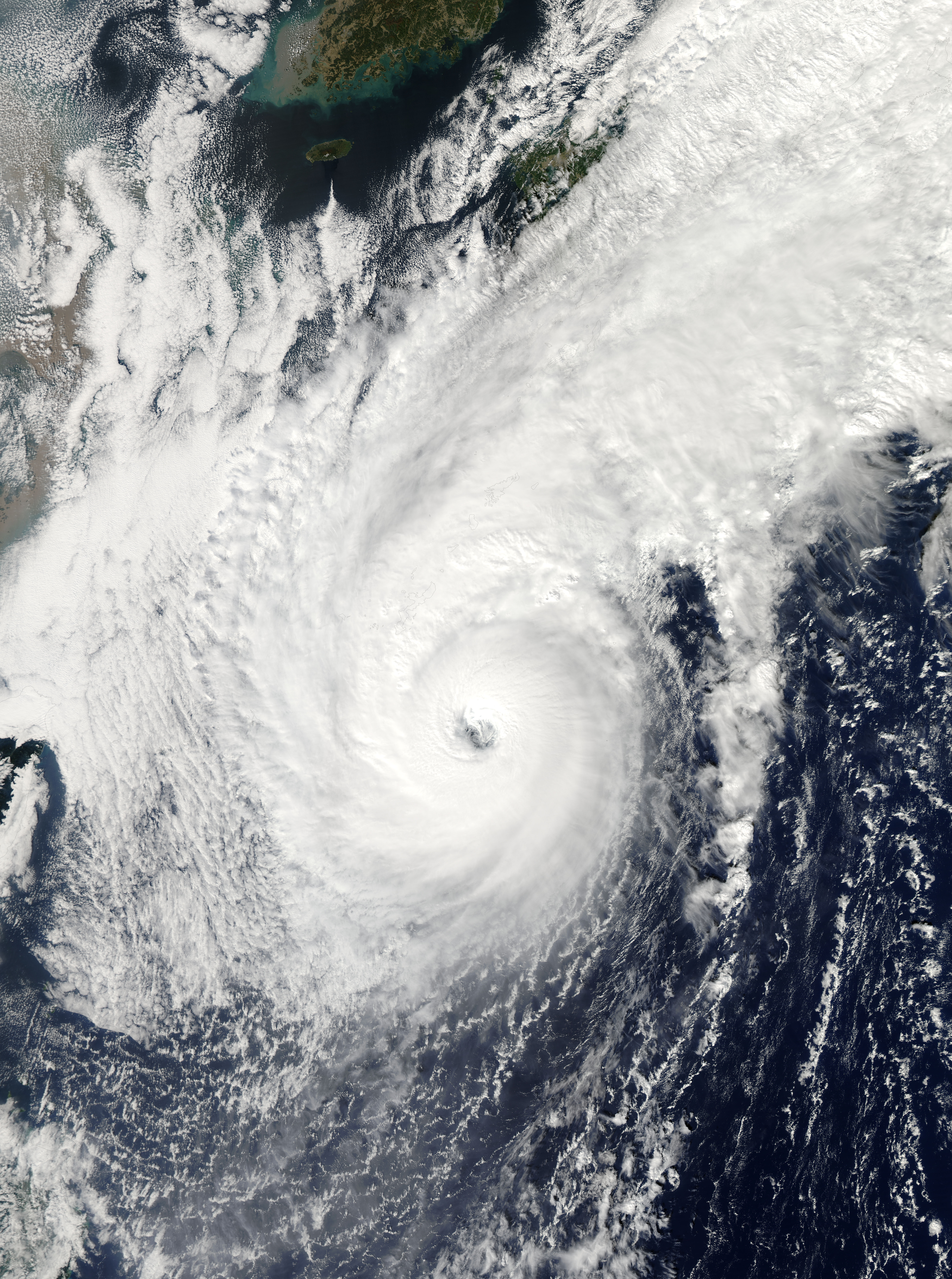 Typhoon Chaba (16W) over the Ryukyu Islands, Japan